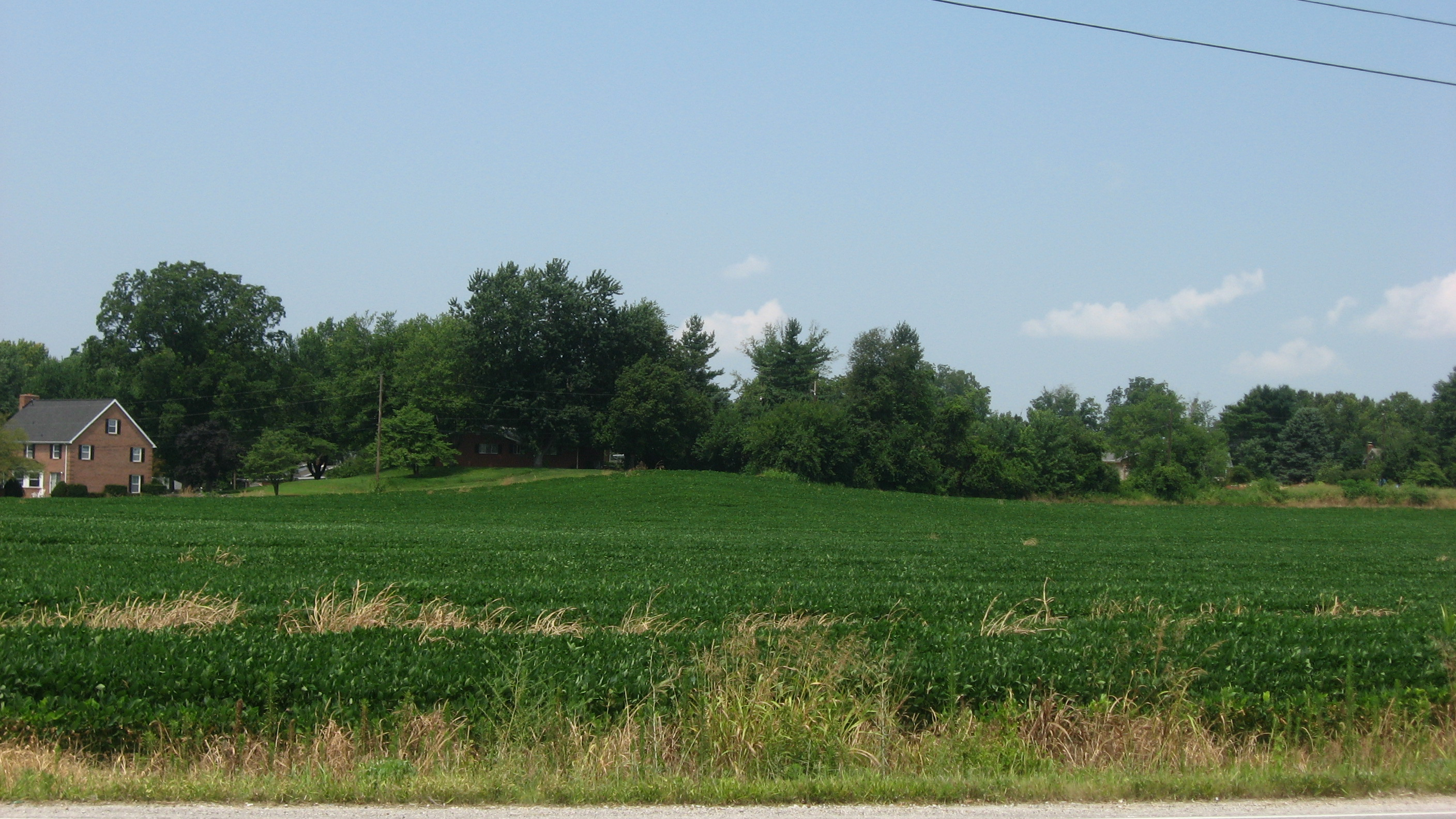 Overview of the Ellerbusch Site, located on a hill northwest of the junction of State Road 662 and Ellerbusch Road, west of Newburgh in Ohio Township, Warrick County, Indiana, United States. Once a village of the Mississippian culture related to the people of the nearby Angel Site, Ellerbusch is an archaeological site and listed on the National Register of Historic Places.